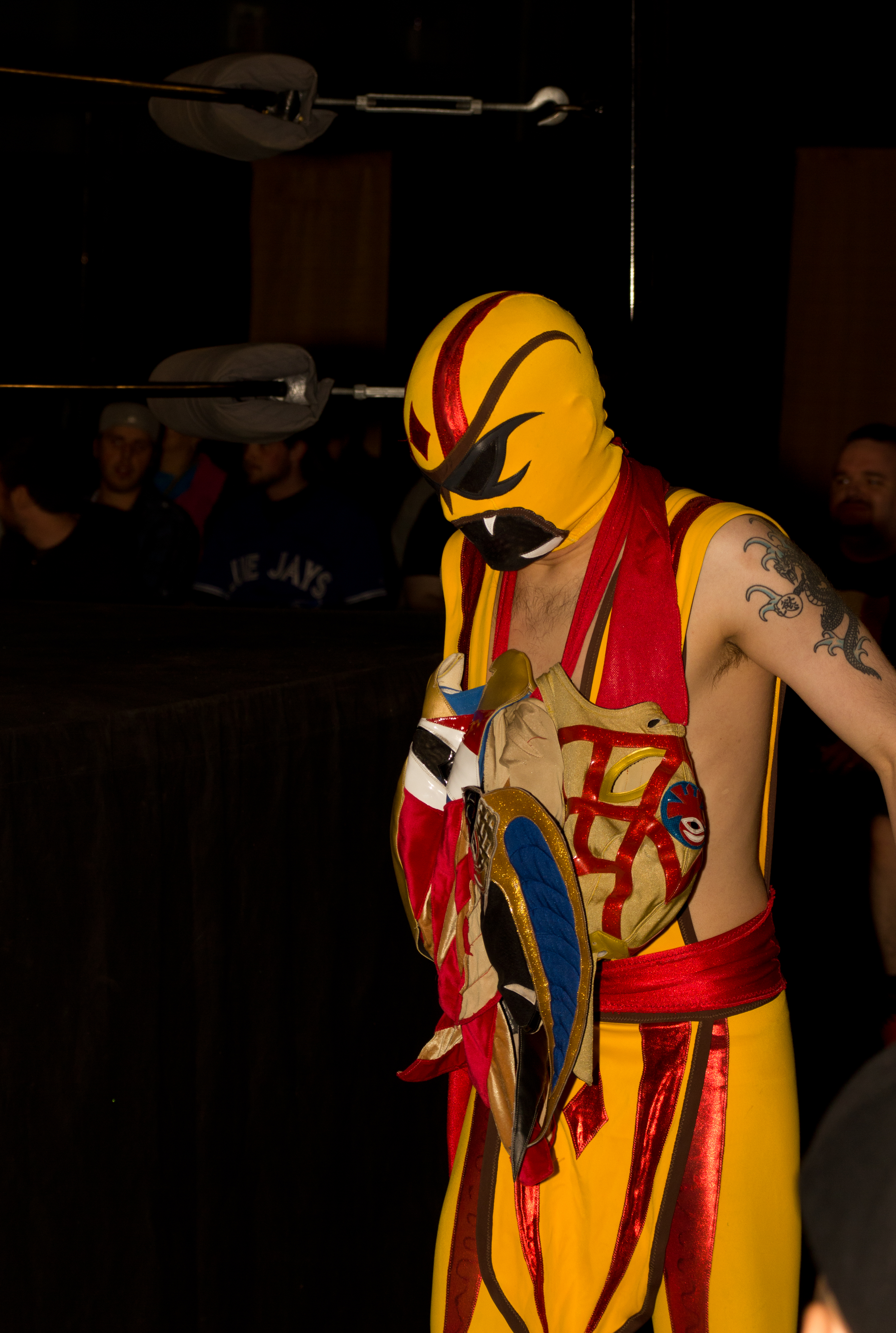 Profesional wrestler Ophidian at a Chikara event.